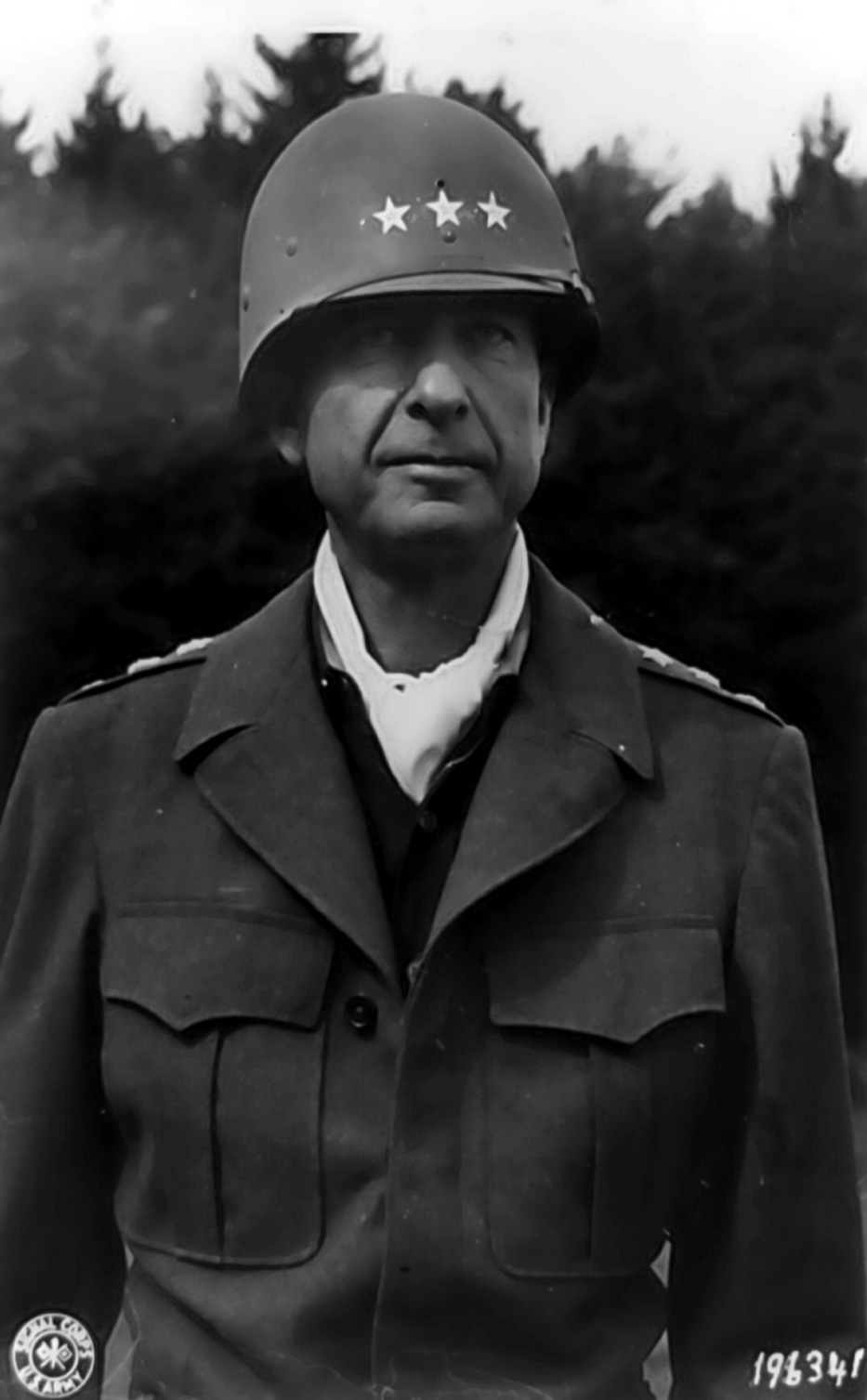 Lt. Gen. Alexander McCarrell Patch, half-length portrait, standing, facing front